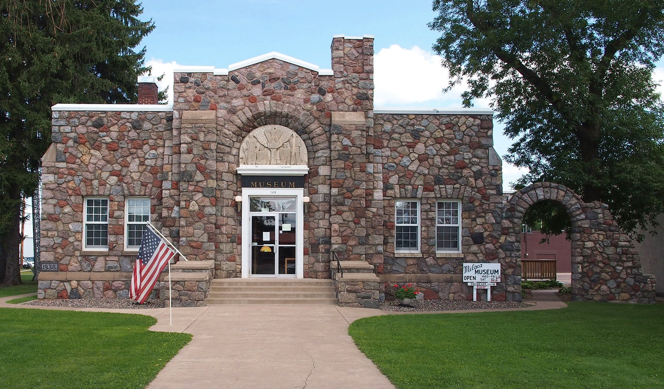 Milaca Municipal Hall, 145 Central Ave S, Milaca, Minnesota, USA. Viewed from the west-southwest.